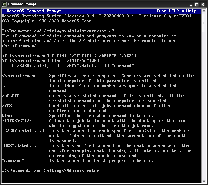 at command on ReactOS-0.4.13